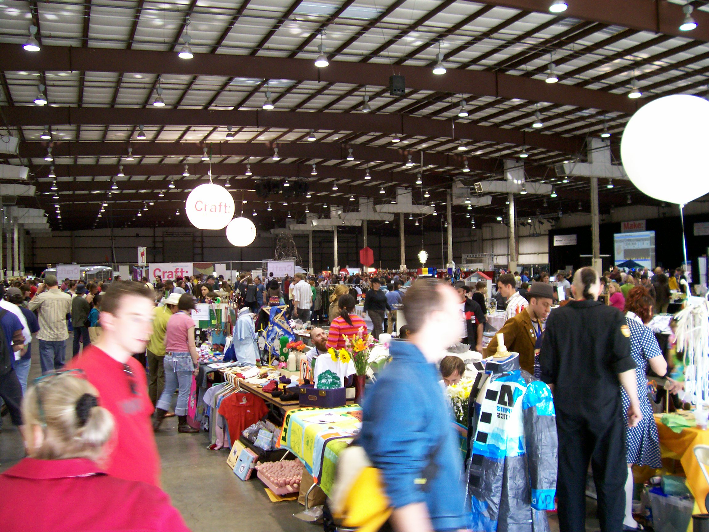 This room was absolutely jam-packed with all kinds of makey and crafty goodness.